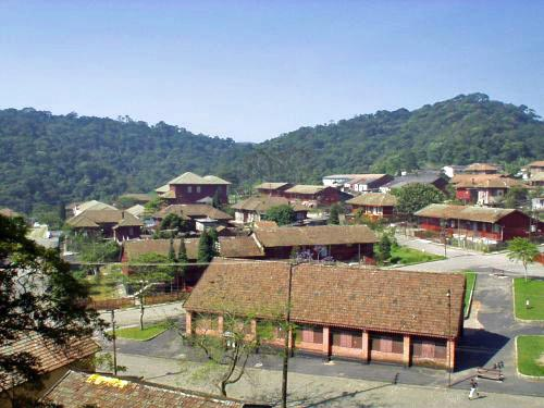 A view from Paranapiacaba village, Santo André, São Paulo, Brazil. On the center, the museum, formerly engineer's house. Photo taken in 2001.